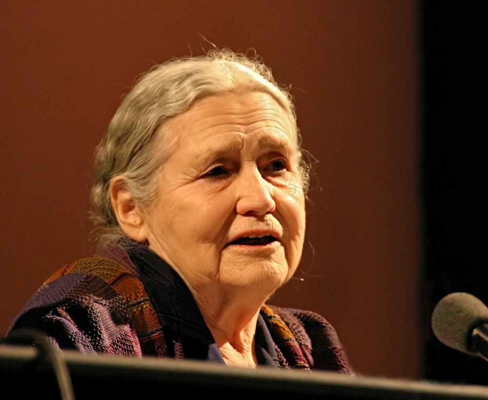 Doris Lessing, British writer, at lit.cologne, Cologne literature festival 2006, Germany